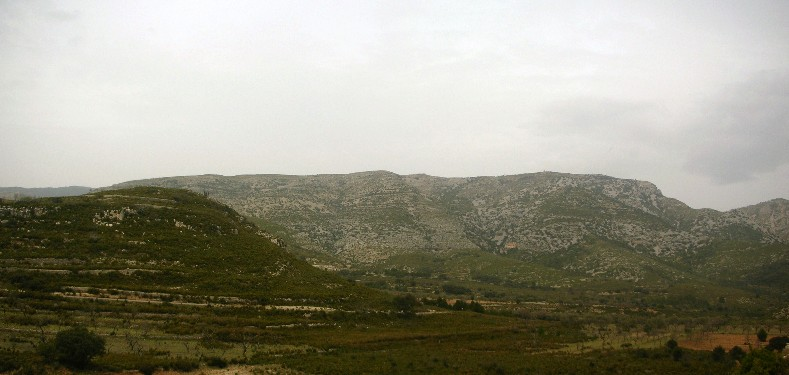 Southern side of Serra del Turmell, a mountain chain in the NW Valencian Community